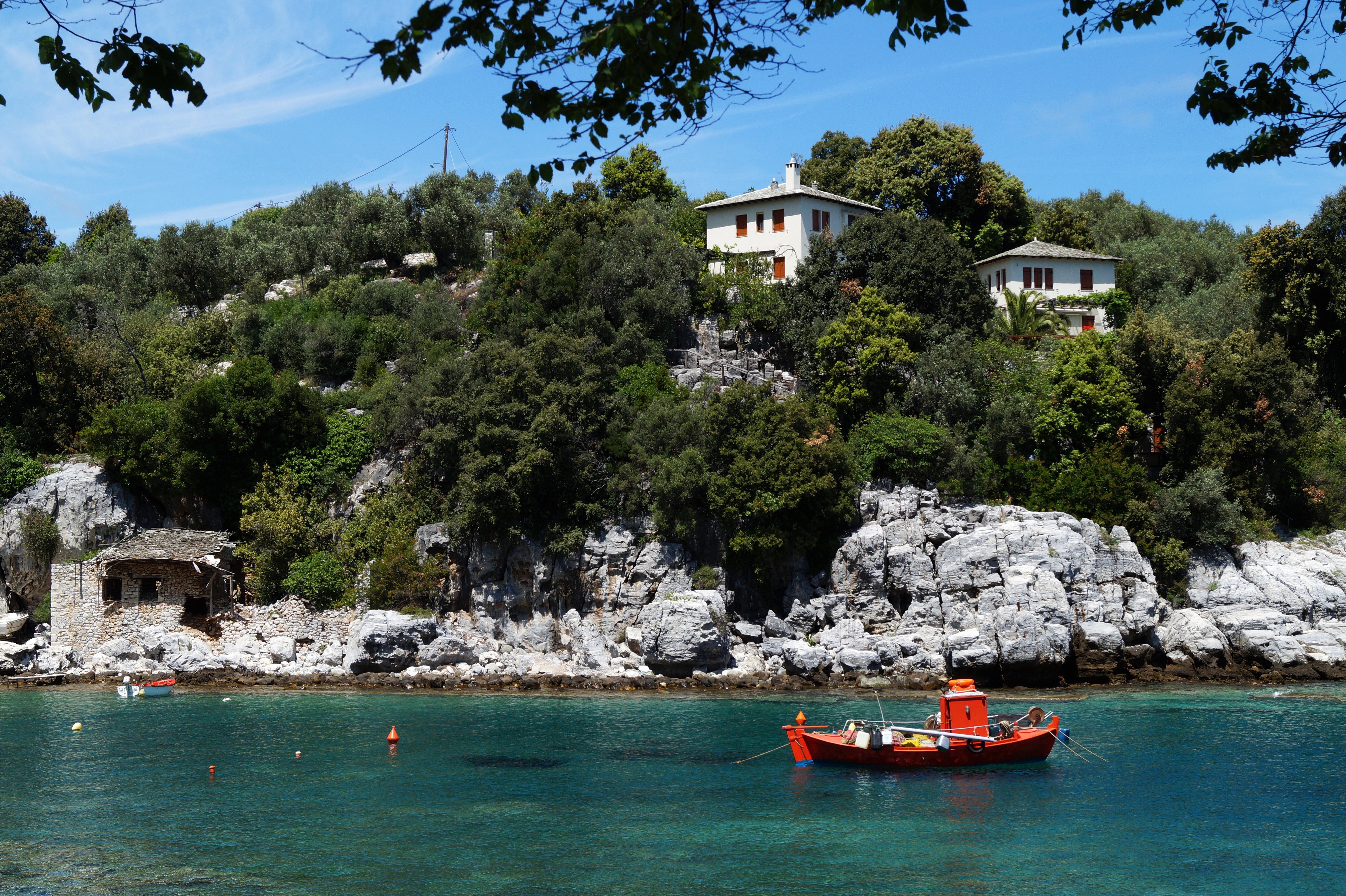 This is a photography of Natura 2000 protected area with ID GR1430001